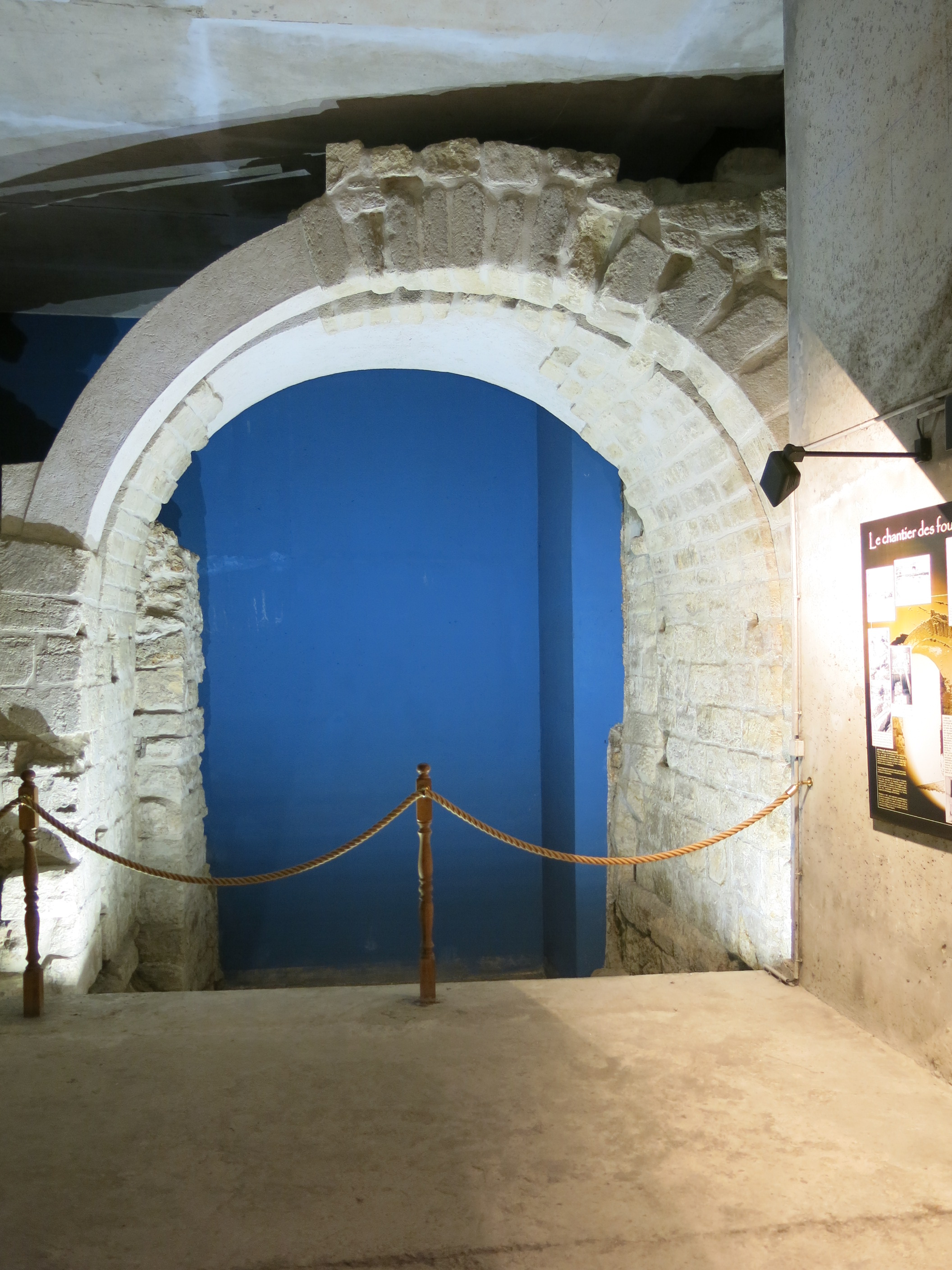 Remainings of the arche of the wall of Philippe Auguste which let the Bievre river to enter in Paris (Paris, 5th arrond., France).